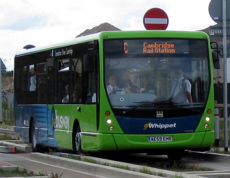 Go Whippet bus (reg. AE59 EHR), a 2010 Volvo B7RLE single-decker with Plaxton Centro bodywork. It's branded for and operating Cambridgeshire Guided Busway route C, on the first day of public services.